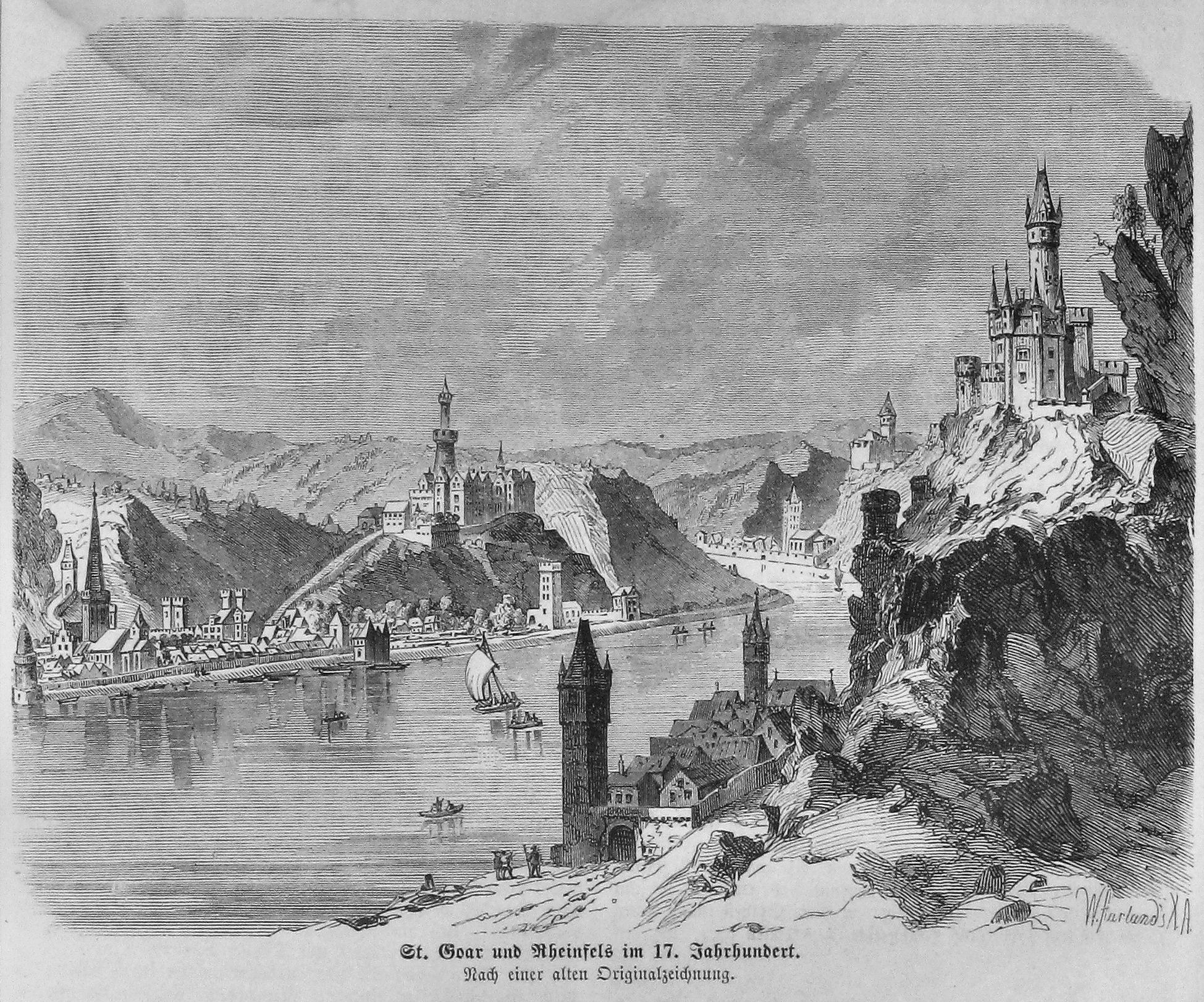 caption: "St. Goar und Rheinfels im 17. Jahrhundert. Nach einer alten Orginalzeichnung."